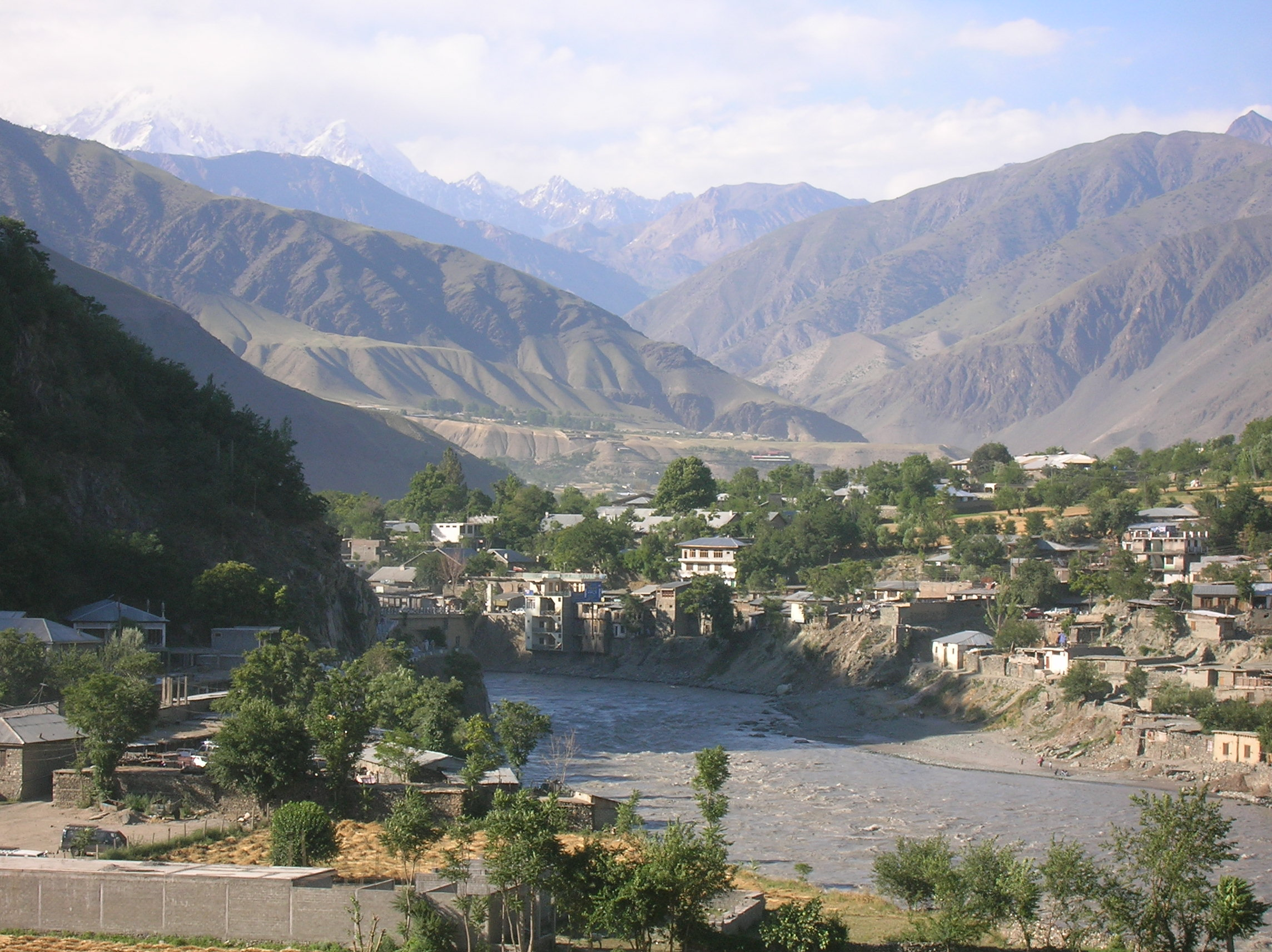 On my Trip to Chitral.